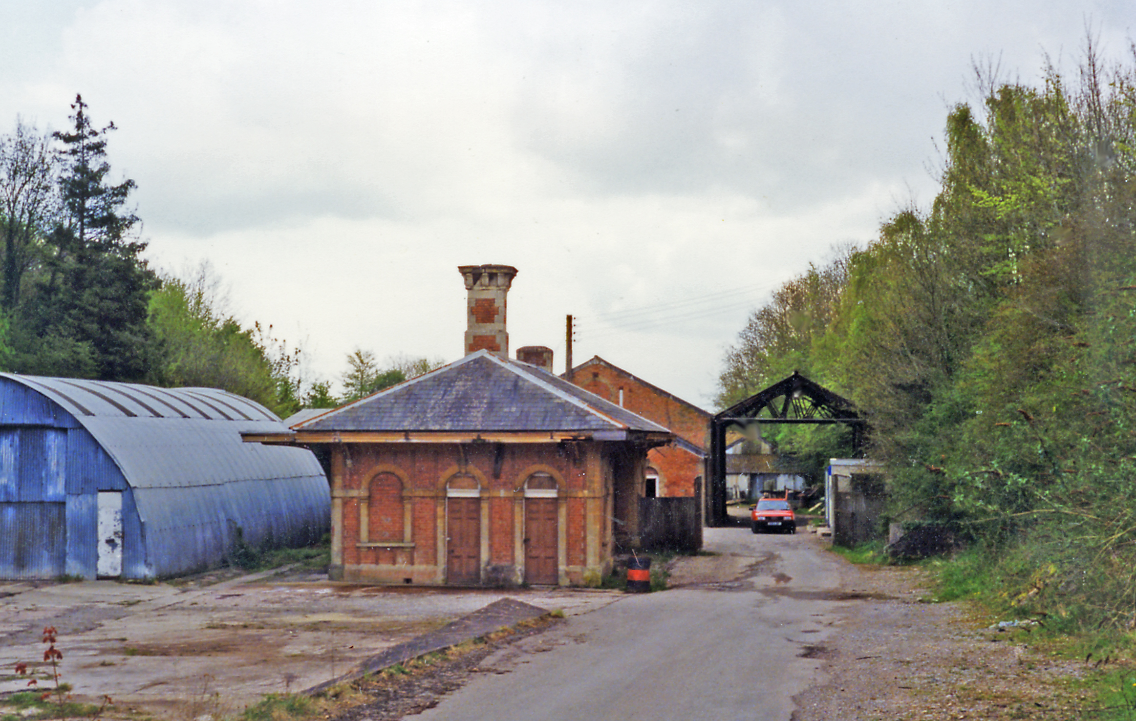 Hatch: former station, 1995. View SE, towards Chard: ex-GWR Taunton - Chard branch. The station and line were closed to passengers from 10/9/62, to goods 6/7/64